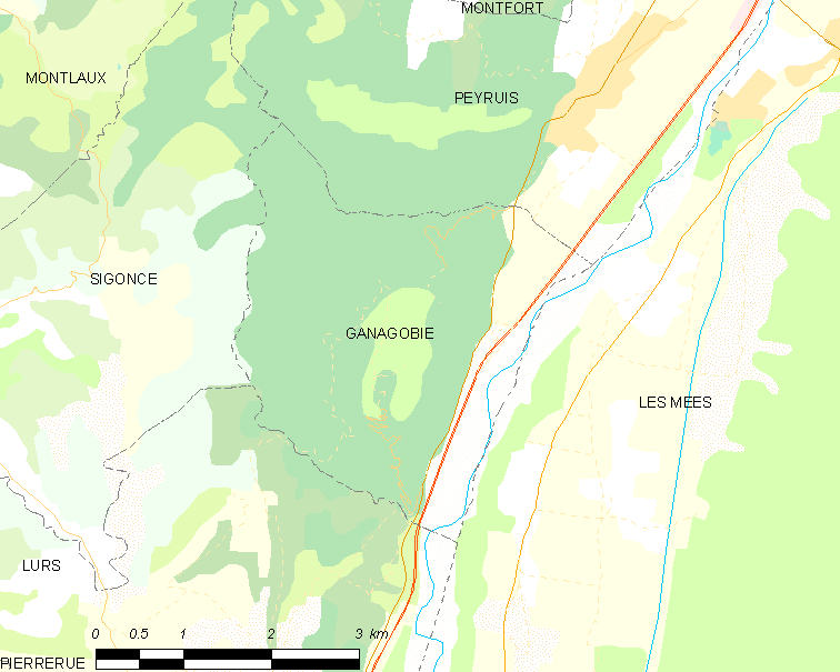 Map commune FR insee code 04091.png Légende